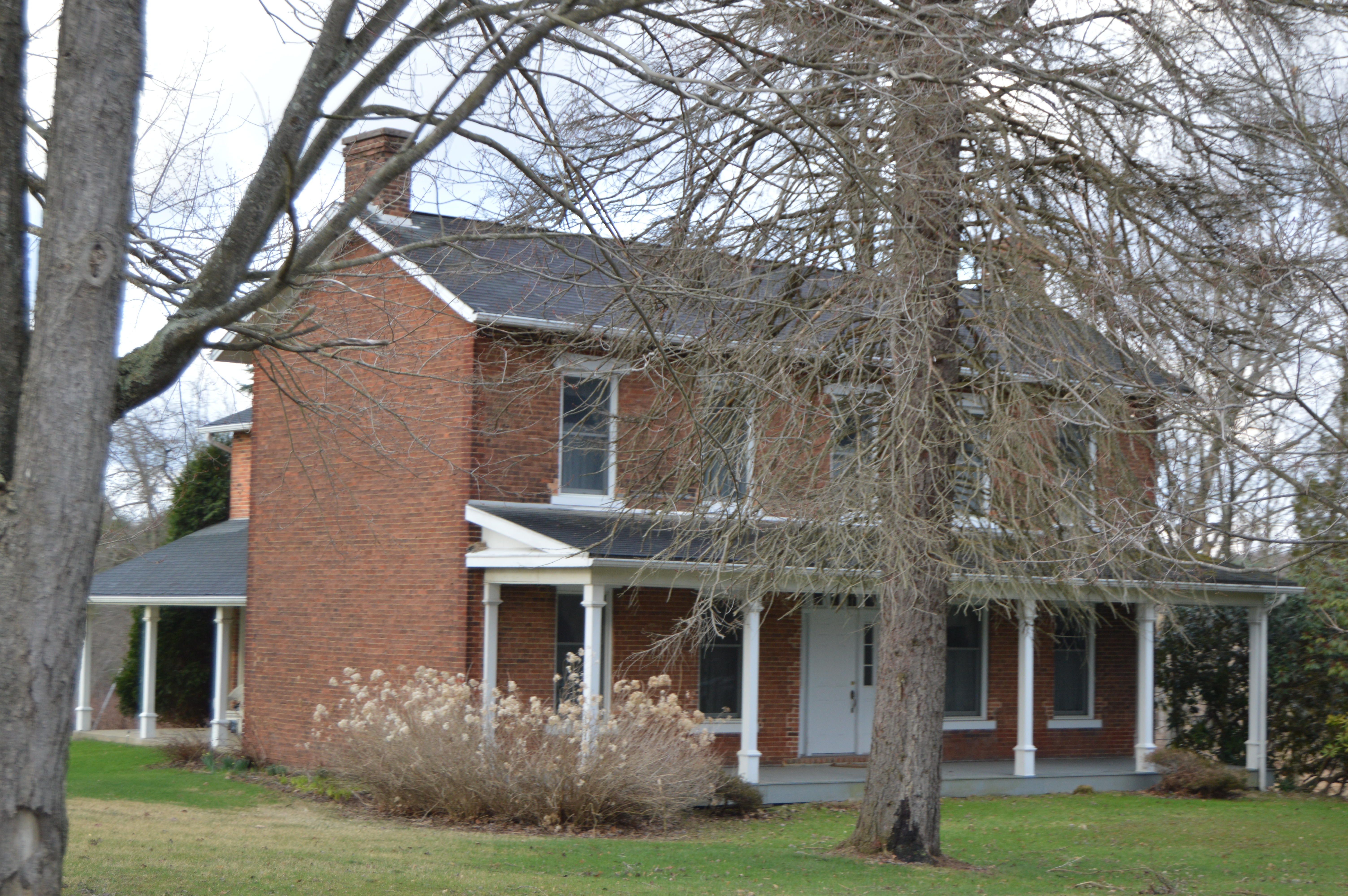 Roadside view of a farmhouse on the southern side of U.S. Route 322 east of Corsica in Union Township, Jefferson County, Pennsylvania, United States.